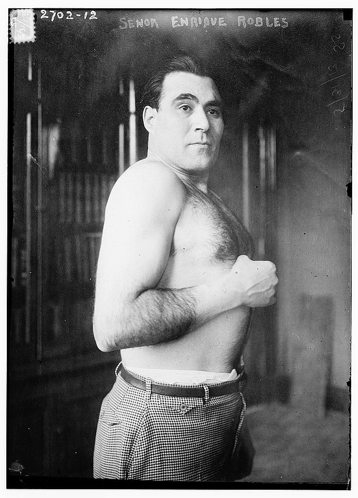 Seňor Enrique Robles